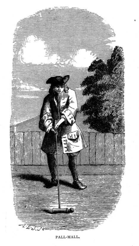 Pall-mall - Project Gutenberg eText 14315